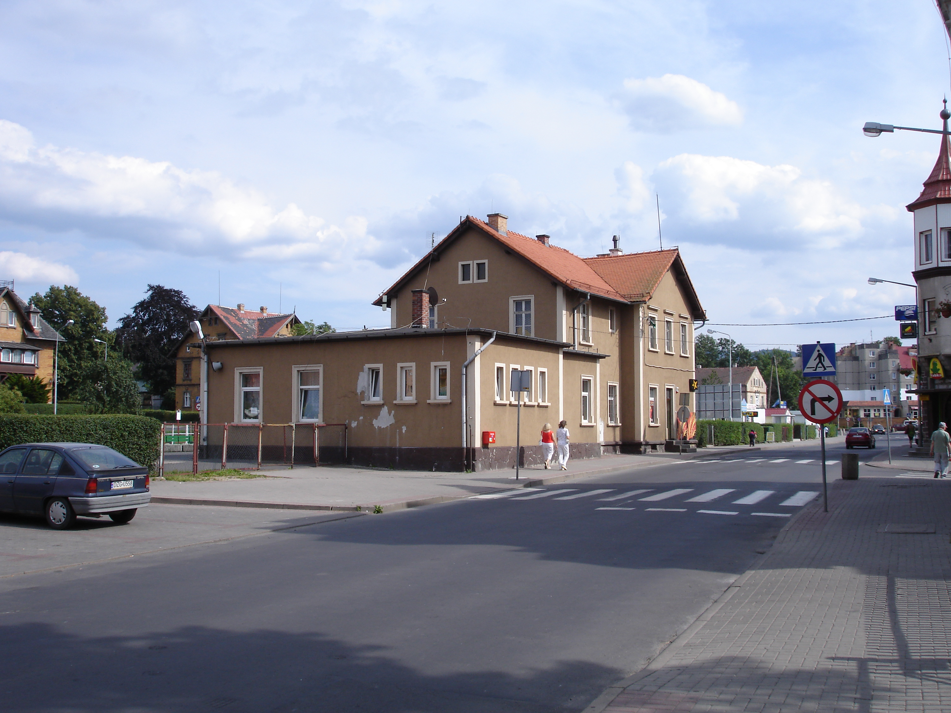 former railway station of railway line Zittau–Hermsdorf in Bogatynia, Poland